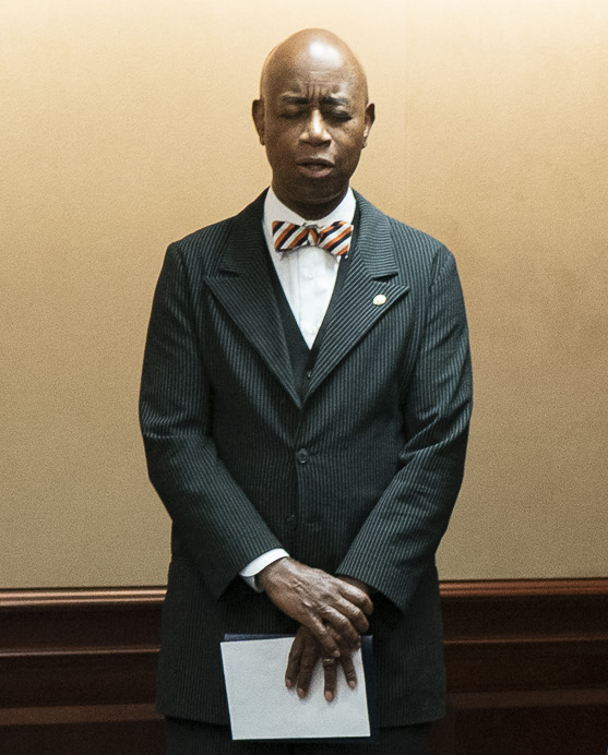 President Donald J. Trump joined by Vice President Mike Pence, participates in a prayer given by U.S. Senate Chaplin Barry Black during the governors’ video teleconference on partnership to prepare, mitigate and respond to COVID-19 Thursday, March 26, 2020, in the White House Situation Room. (Official White House Photo by Shealah Craighead)